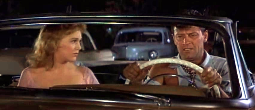 Kim Novak & William Holden in Picnic - trailer (cropped screenshot)